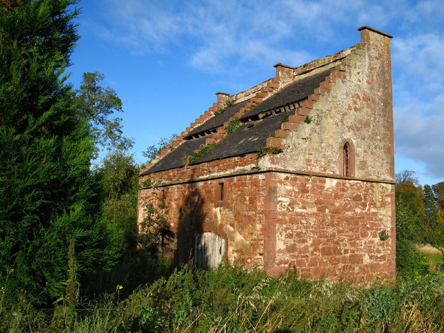 Bowerhouse Doocot Doocot of the rectangular lectern type with sloping roof and stepped gables to provide perches for the pigeons. The roof usually face south to give the birds a sunny surface to rest on, while sheltering them from northerly winds. This one appears to be two-storey, the ground floor would have been used for other purposes and the pigeon quarters on the upper floor. One of the largest doocots in East Lothian and probably built by the owners of the former house at Bower House.